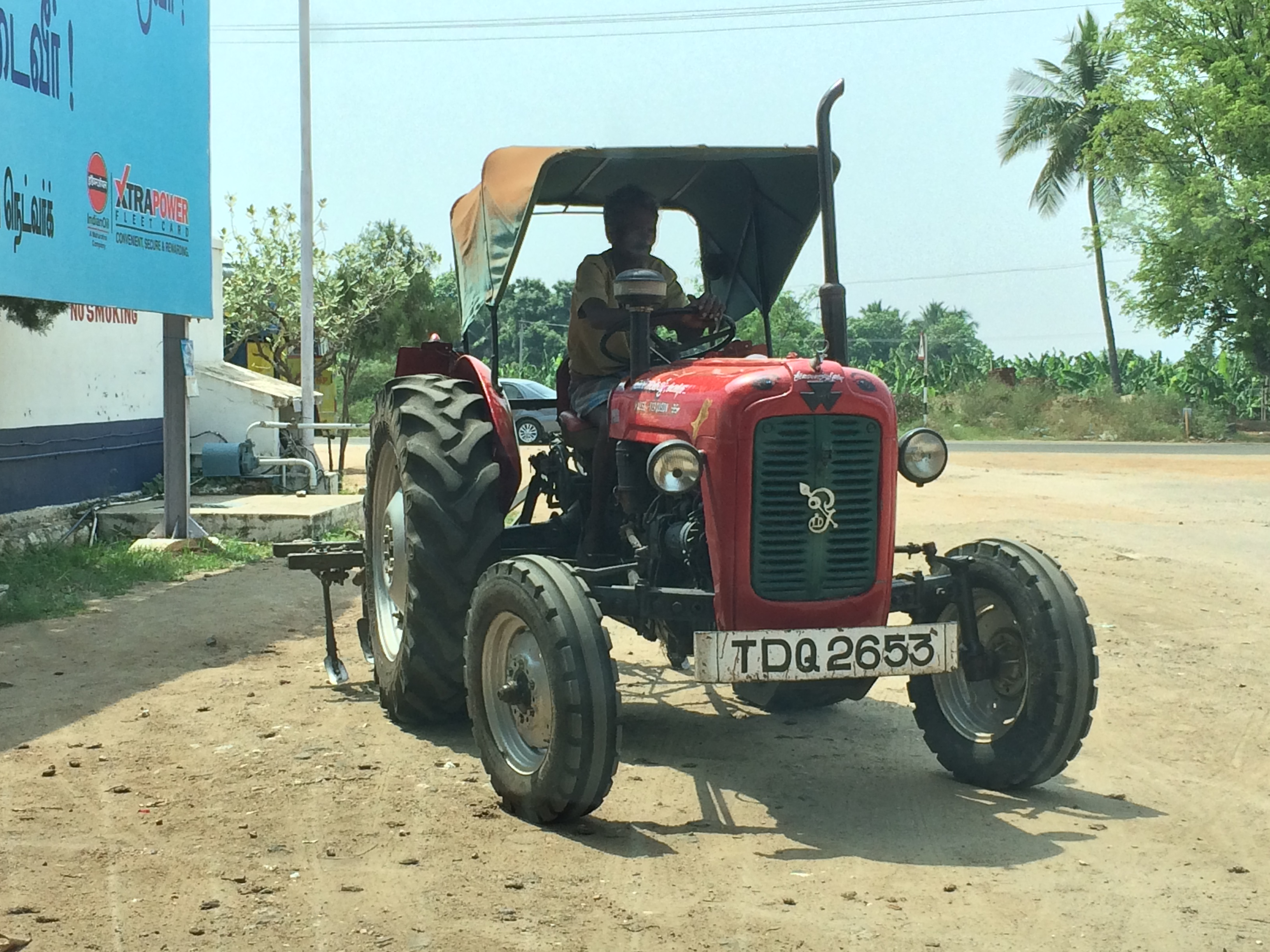 A TAFE - Massey Fergussen tractor near Dindigul - Theni highway.2015.